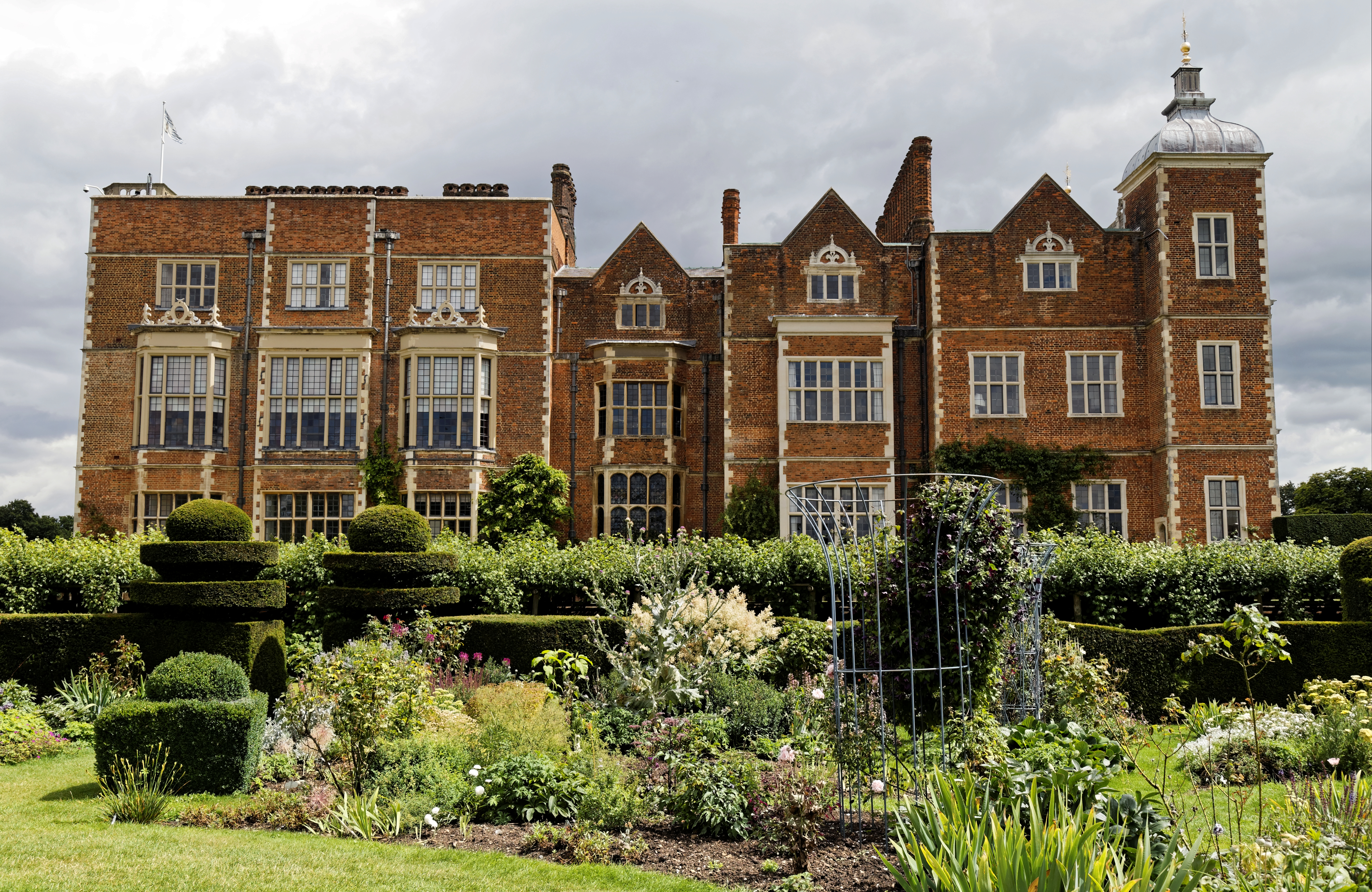 Garden and west wing of Hatfield House in Hertfordshire, England.Software: RAW file lens-corrected, optimized and converted to JPEG with DxO OpticsPro 10 Elite, and likely further optimized and/or cropped and/or spun with Adobe Photoshop CS2.